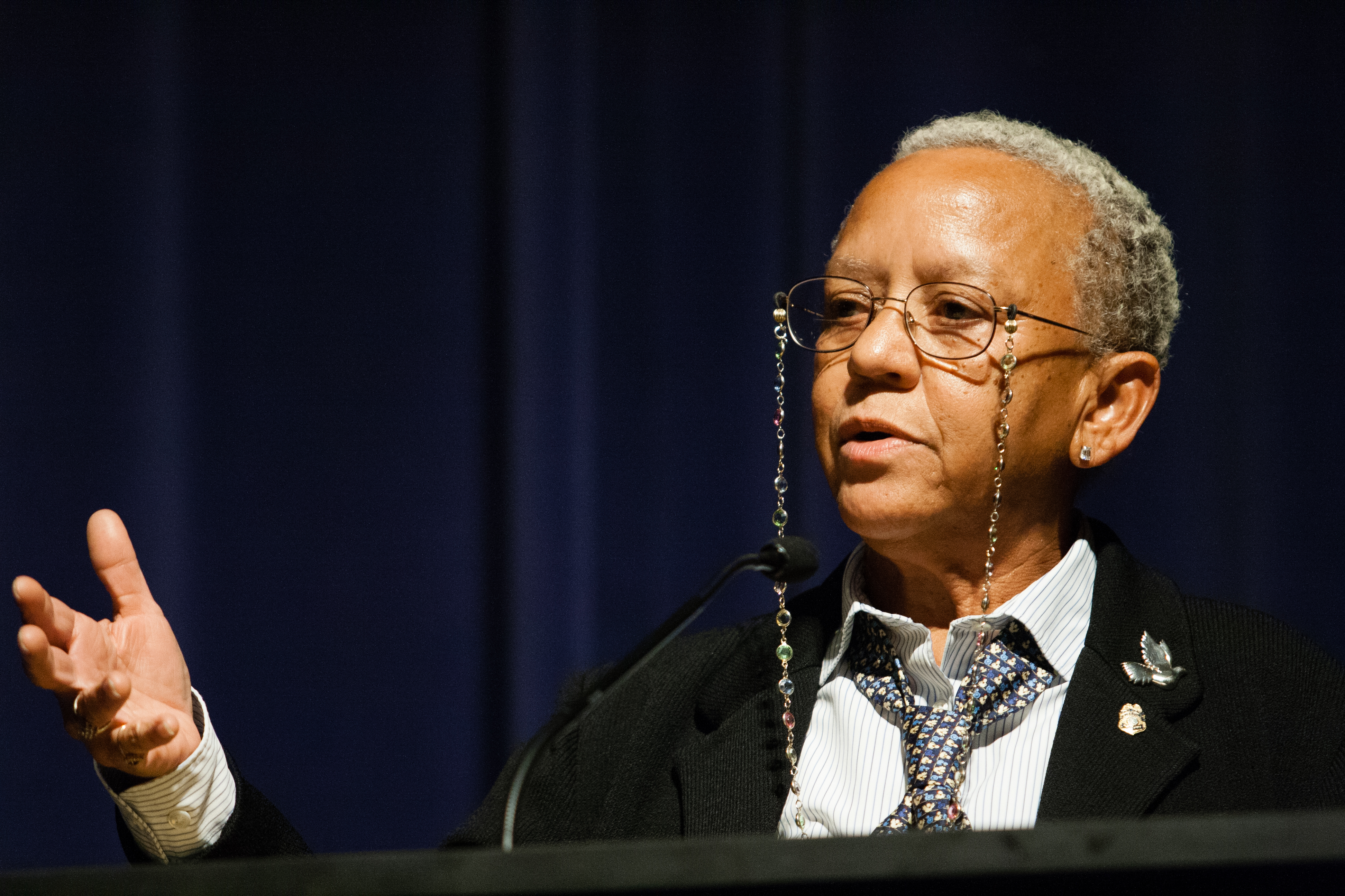 Yolande Cornelia "Nikki" Giovanni speaking at Emory University on 6 February 2008